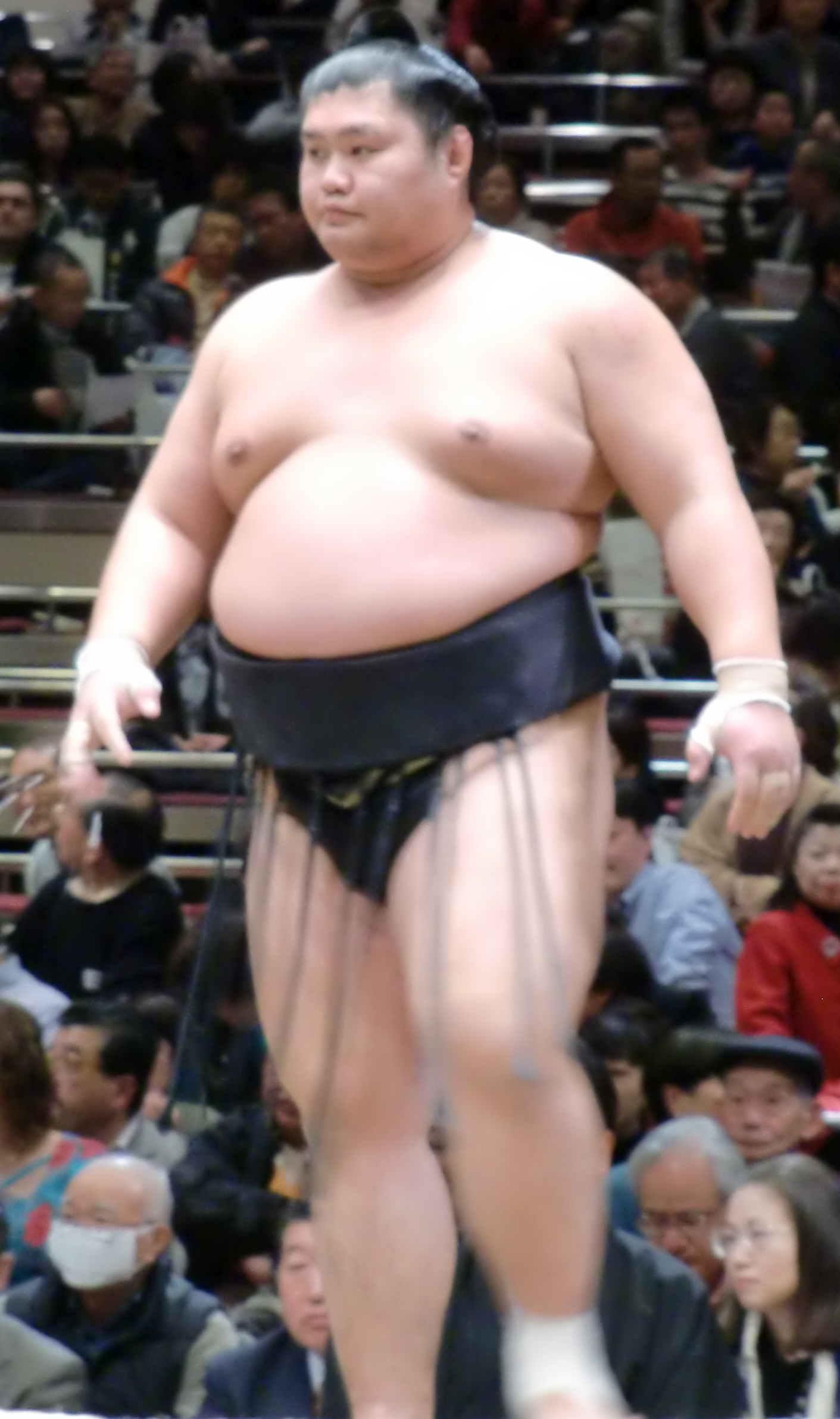 taken at Jan 2010 tournament